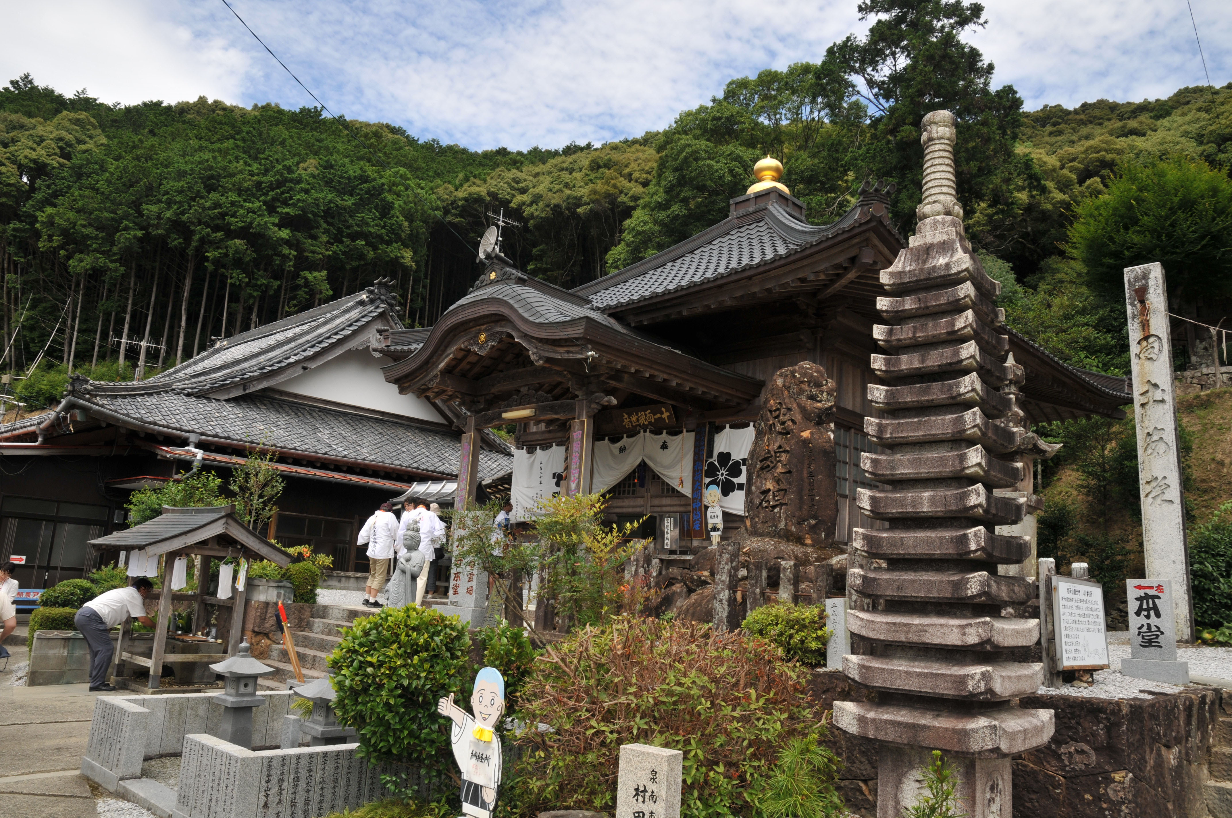 Main temple, Ryūkō-ji